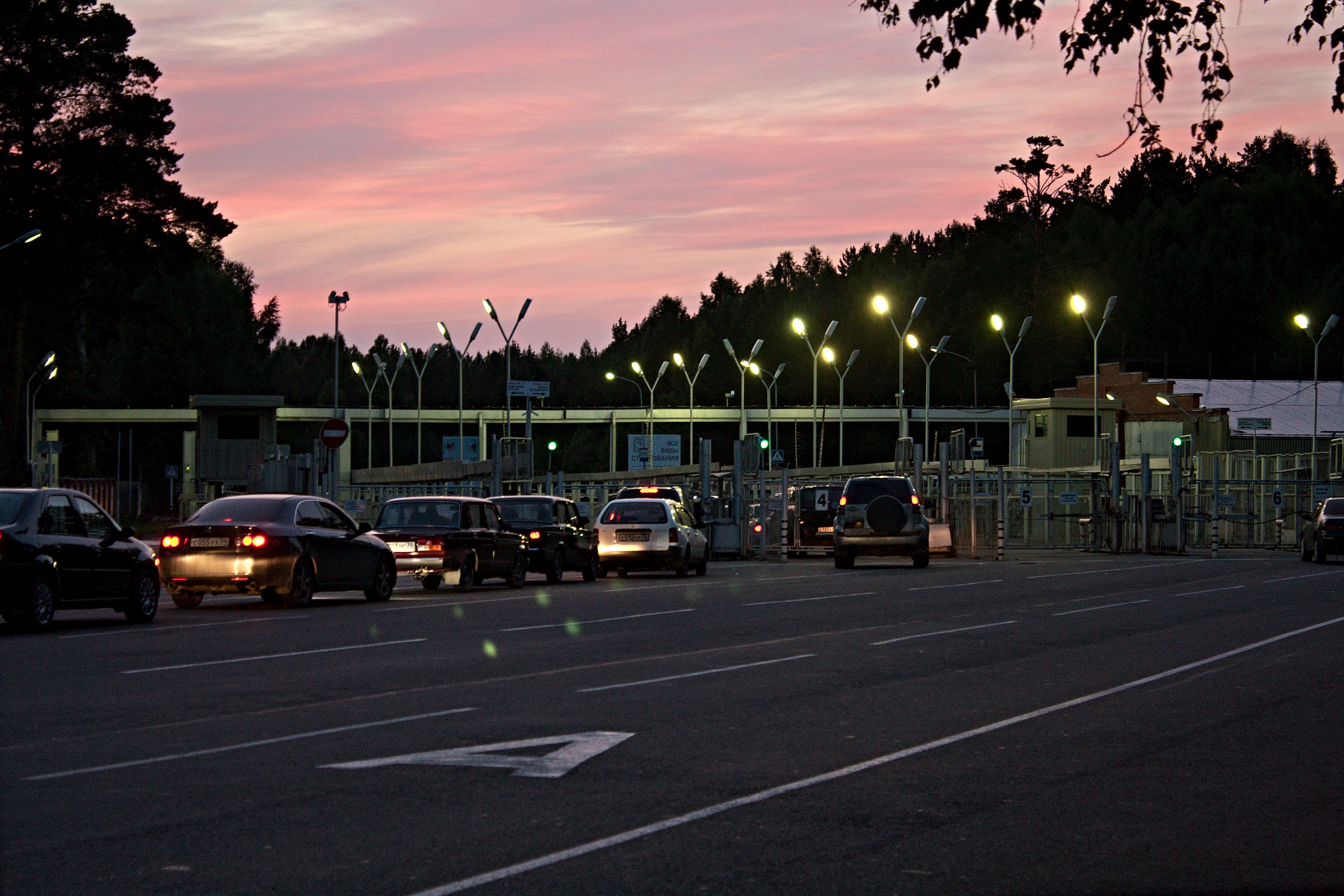 Entry checkpoint for Sevensk, Russia, a closed city of 10,000 inhabitants near Tomsk, in which people have to show special documents to enter the city.